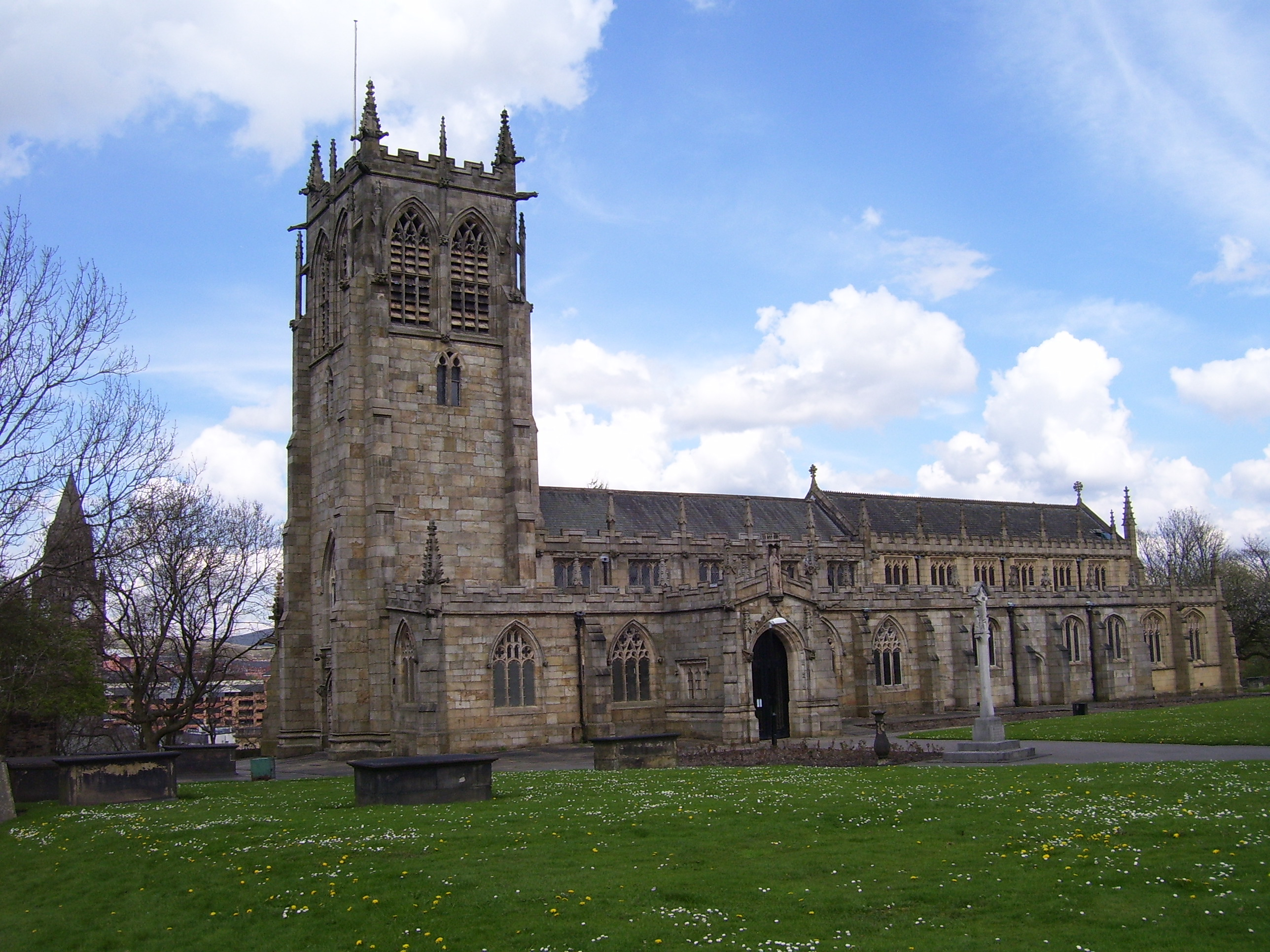 Church of St Chad, in Rochdale, Greater Manchester, England.